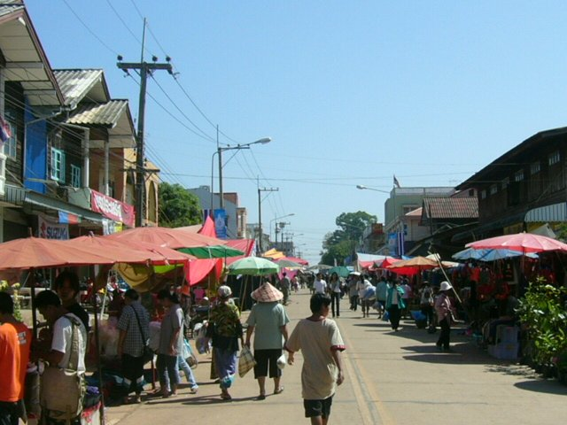 Street market in Si Songkhram, Nakhon Phanom Province, Northeastern Thailand.